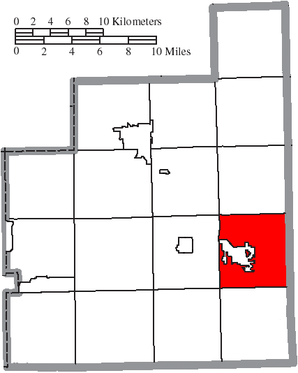 Map of the municipal and township boundaries of Geauga County, Ohio, United States, as of the 2000 census, with the location of Middlefield Township highlighted. Township borders are shown only in unincorporated areas in order to differentiate incorporated and unincorporated areas more clearly.